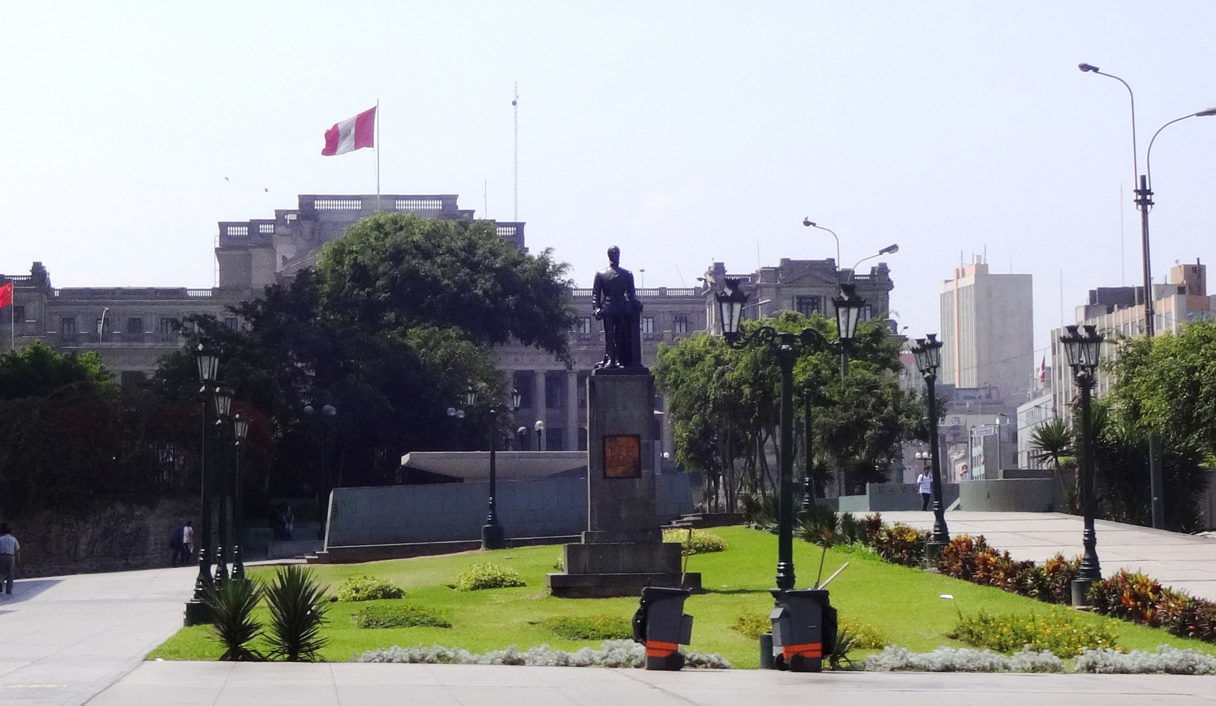 Statue of Inca Garcilaso de la Vega in Lima, Peru.